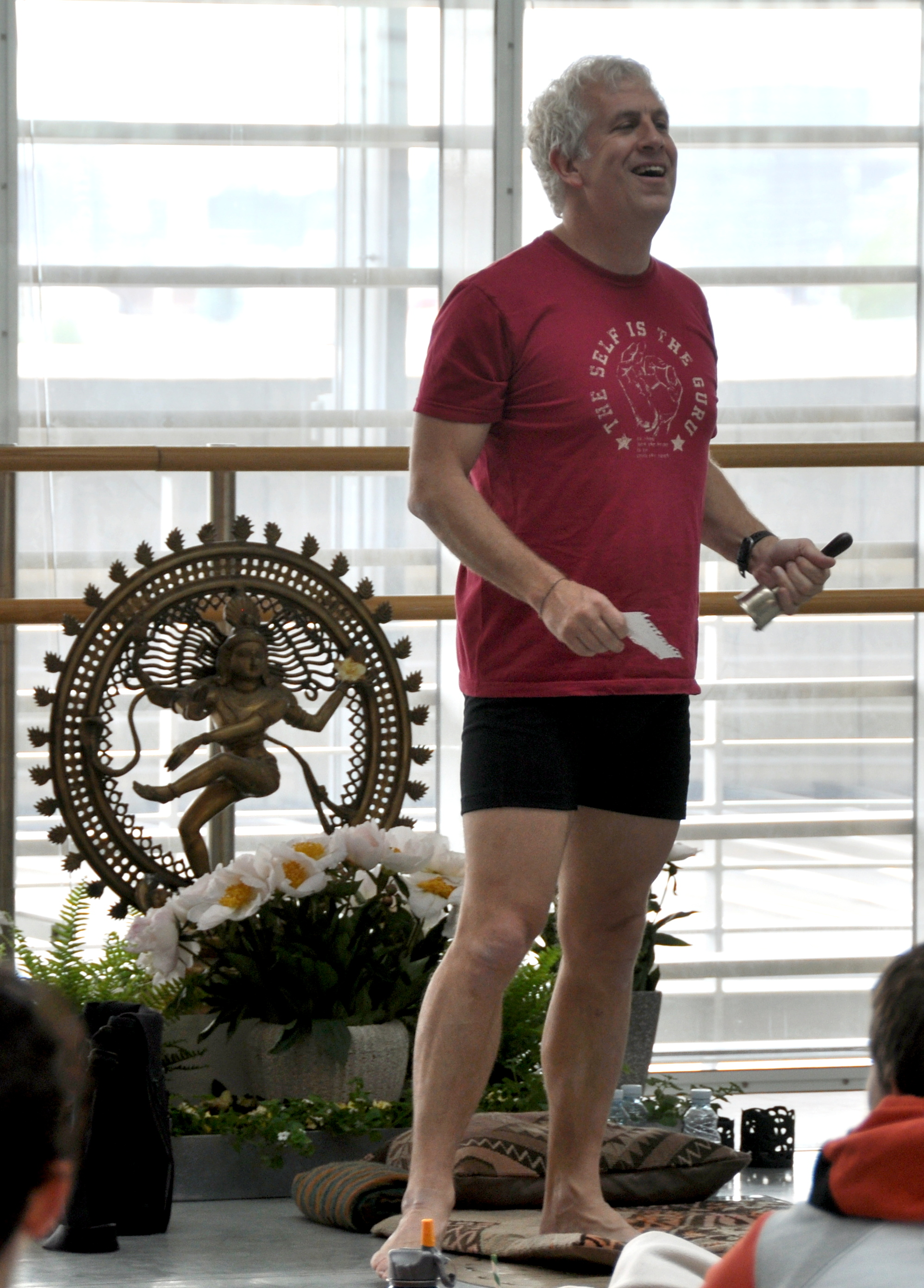 John Friend, founder of Anusara Yoga, giving a workshop at the opera house in Copenhagen, June 2010.